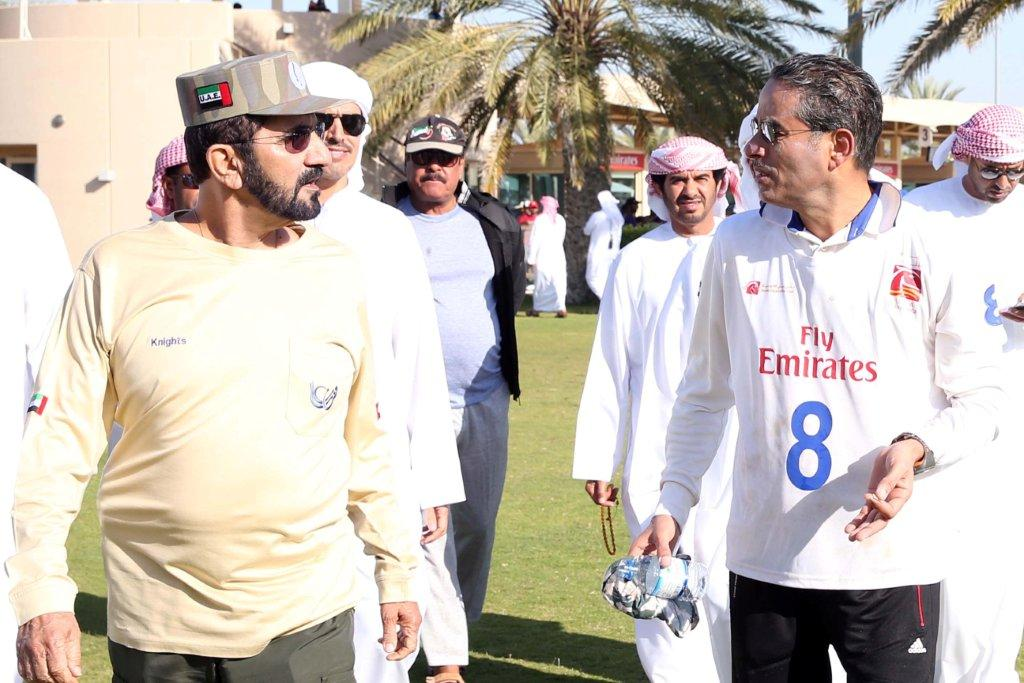 Dubai Crown Prince Endurance Cup 23 March 2013